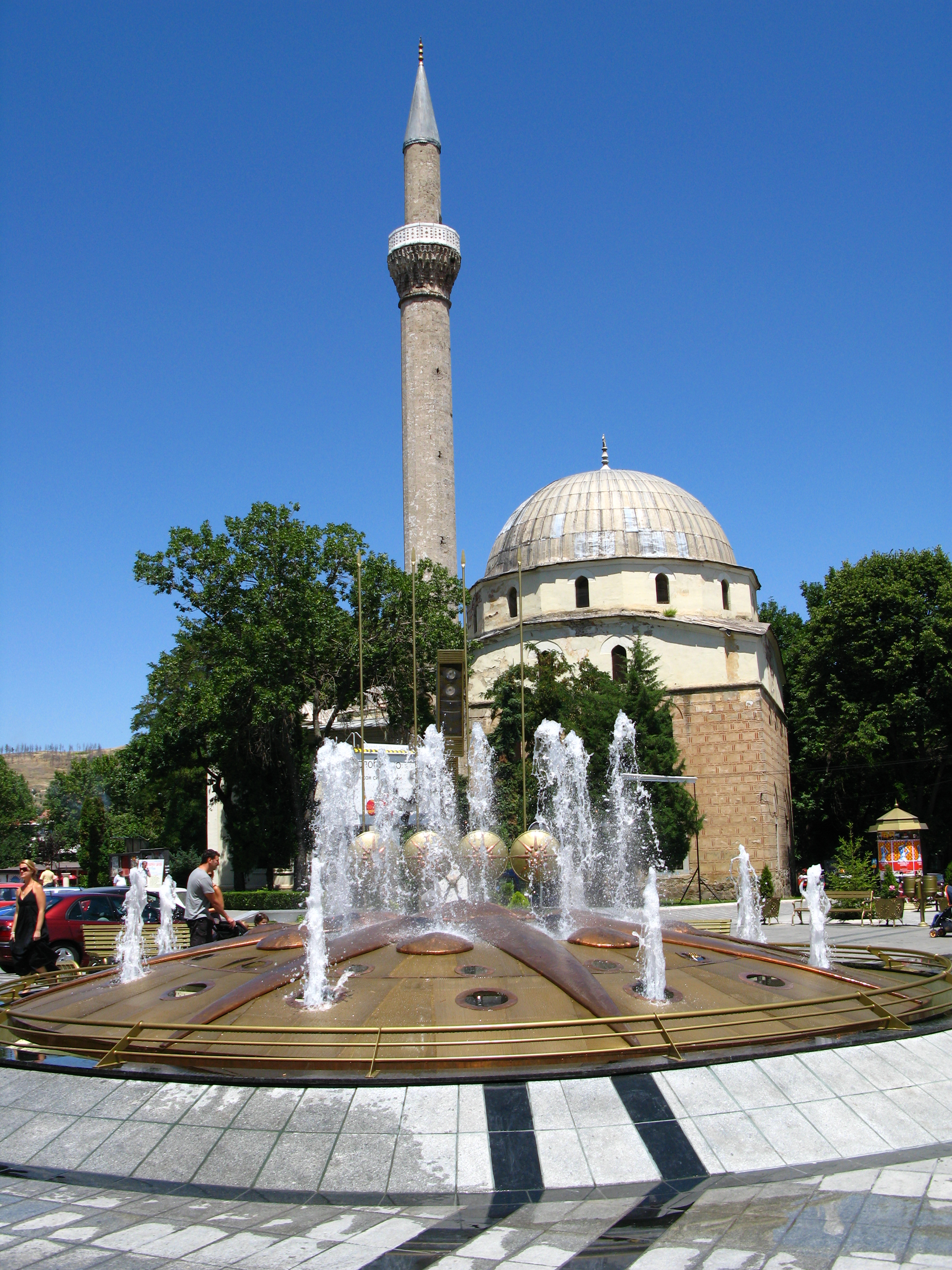 Jeny mosque in Bitola, Macedonia.